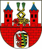 Coat of arms of Bernburg